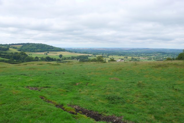 Batcombe Hill This is the view north across the square. The wooded hill in the distance is Bubb Down Hill.